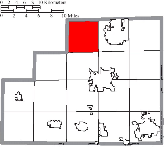 Map of the municipal and township boundaries of Medina County, Ohio, United States, as of the 2000 census, with the location of Liverpool Township highlighted. Township borders are shown only in unincorporated areas in order to differentiate incorporated and unincorporated areas more clearly.